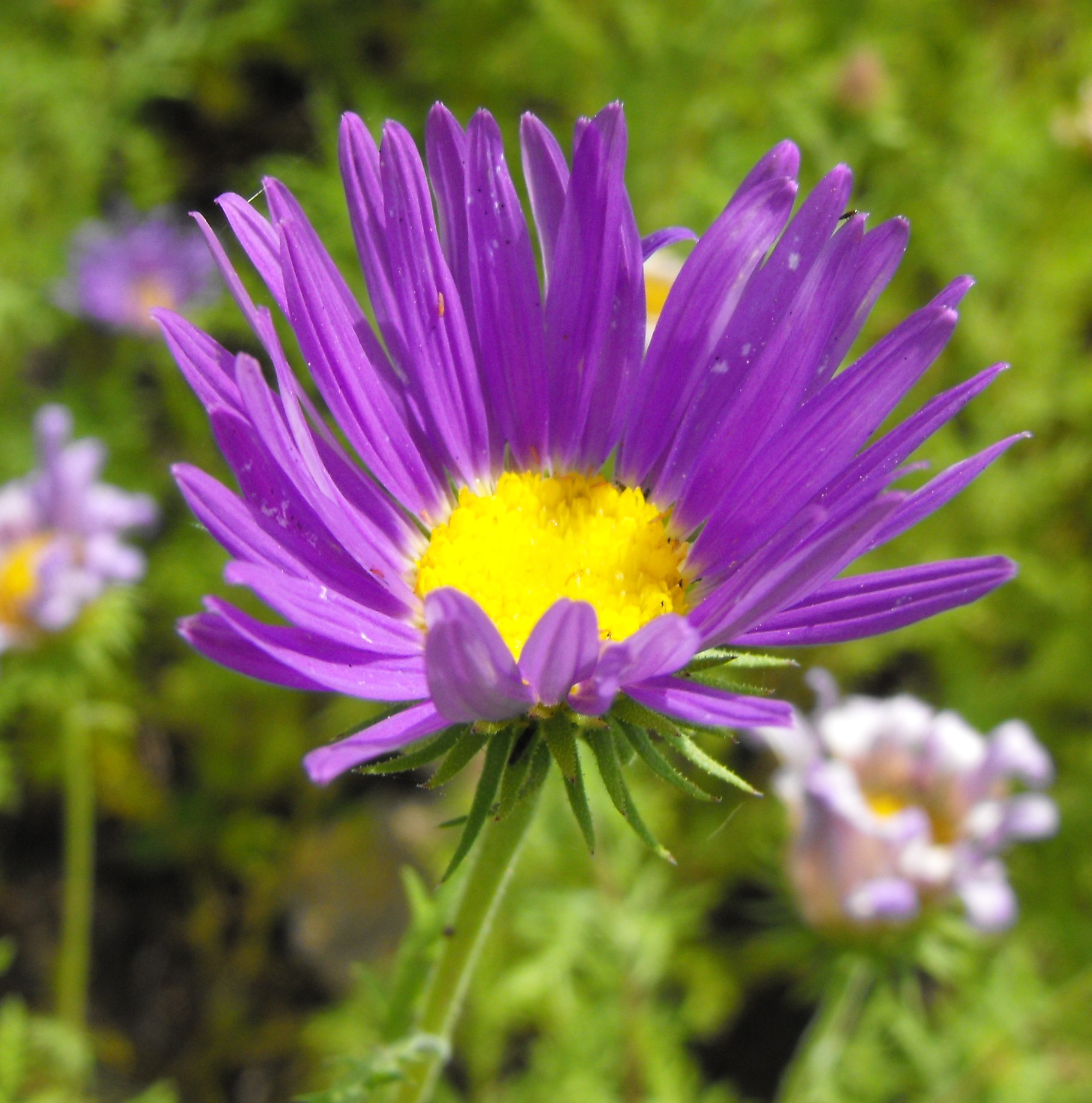 Machaeranthera tanacetifolia in the Water Conservation Garden at Cuyamaca College in El Cajon, California, USA. Identified by sign.